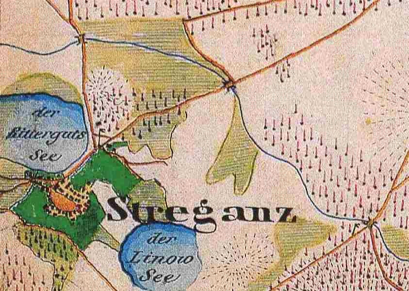 Historical map of Streganz, Gutssee and Linowsee. The village Streganz is a part (german: Ortsteil) of the municipality Heidesee, District Dahme-Spreewald, Brandenburg, Germany. Detail from the Urmesstischblatt (prototype planetable sheet at 1:25,000) Sheet 3749 Storkow, drawn in 1844.